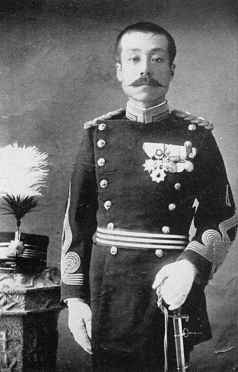 Nagatsune Takakura